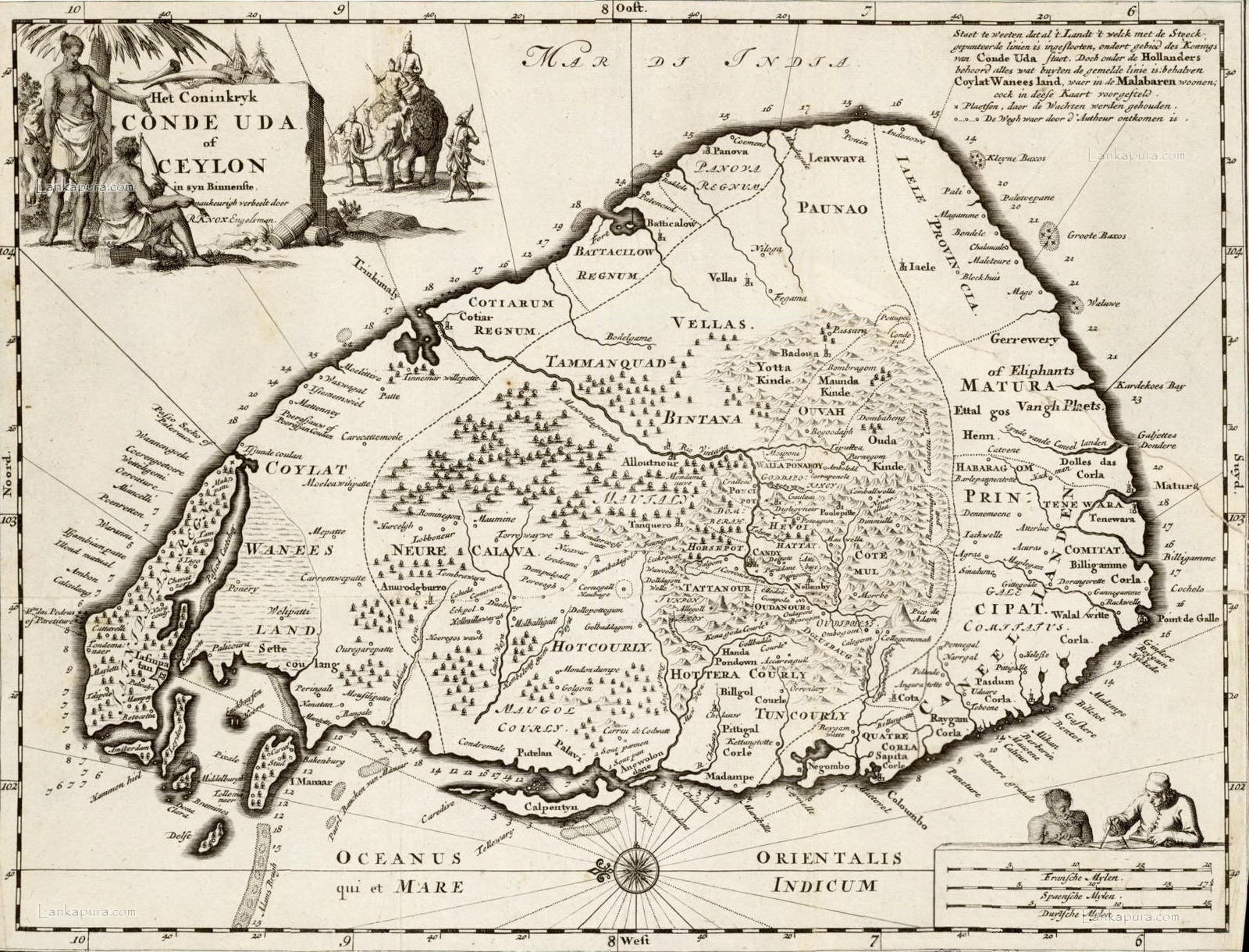 Island of Ceylon with Kingdoms in 17th century, map by R. Knox. Engelsman.